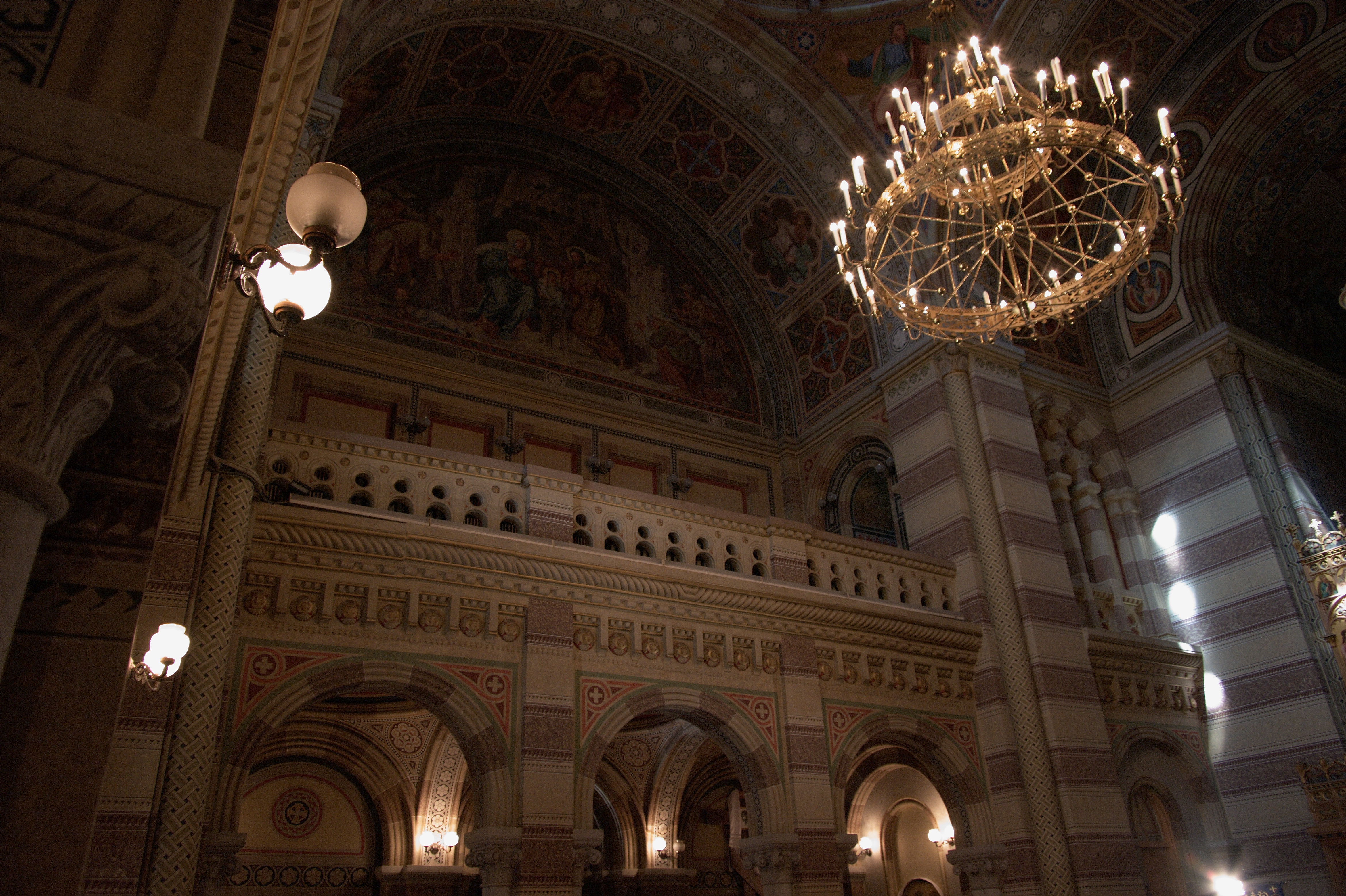 Three Hierarchs Church in Chernivtsi